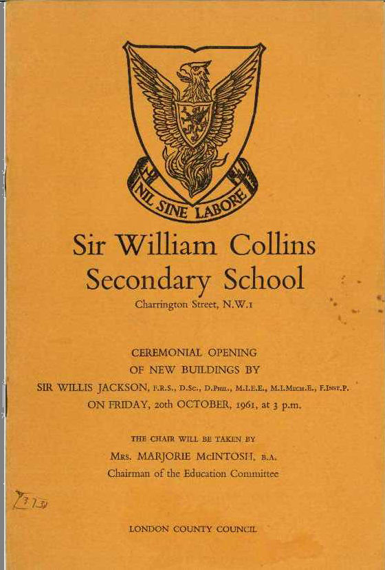 Official Opening of Sir William Collins School New Buildings 1961